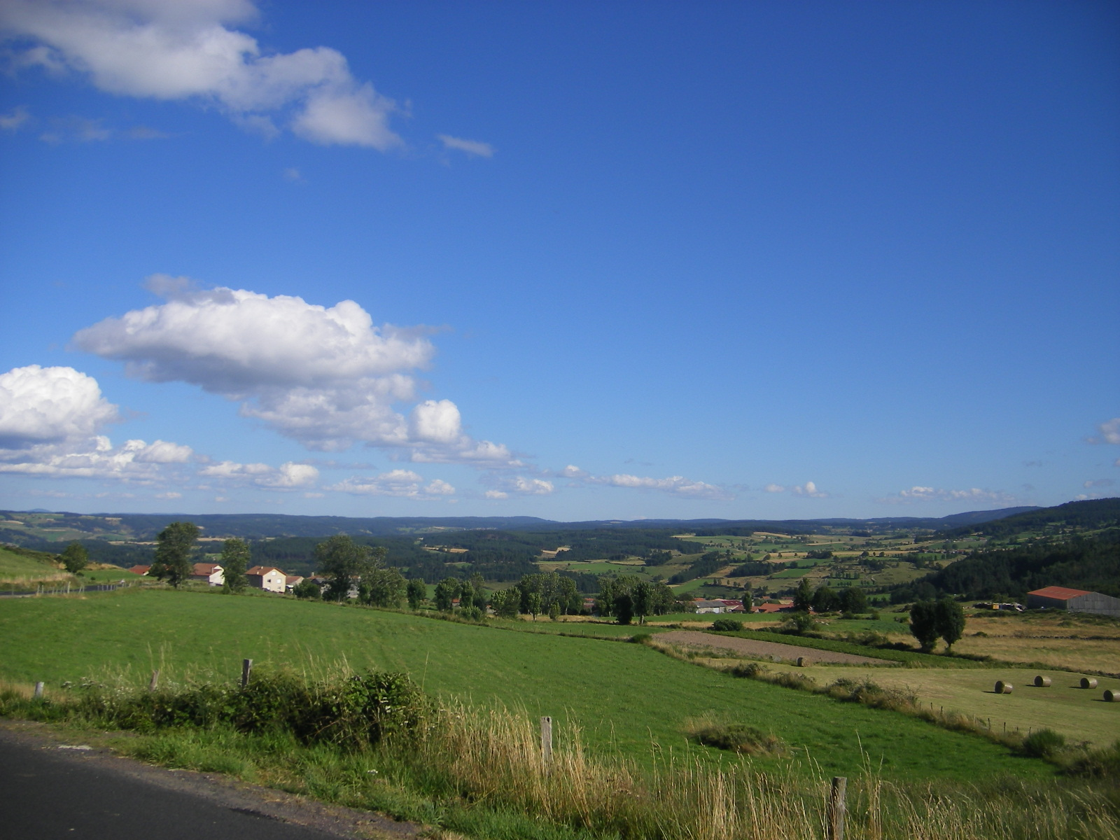 Landscape near Servillanges (commune Venteuges) in Margeride Mtn. (as viewed from D589 route)